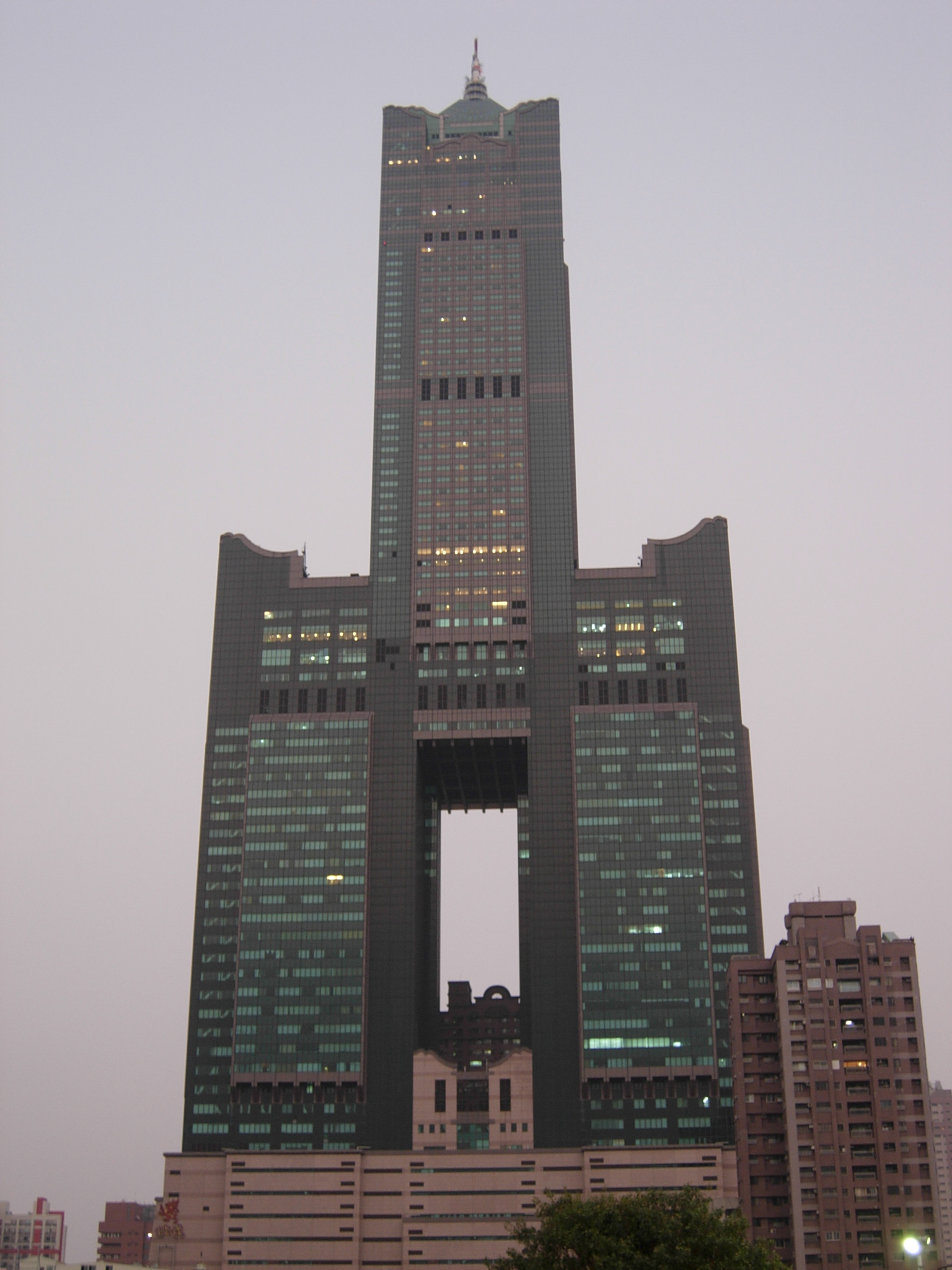 The Tuntex SkyTower in Kaohsiung, Taiwan